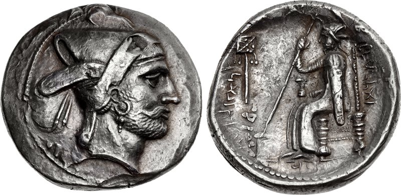 KINGS of PERSIS. Baydād (Bagadat). Early 3rd century BC